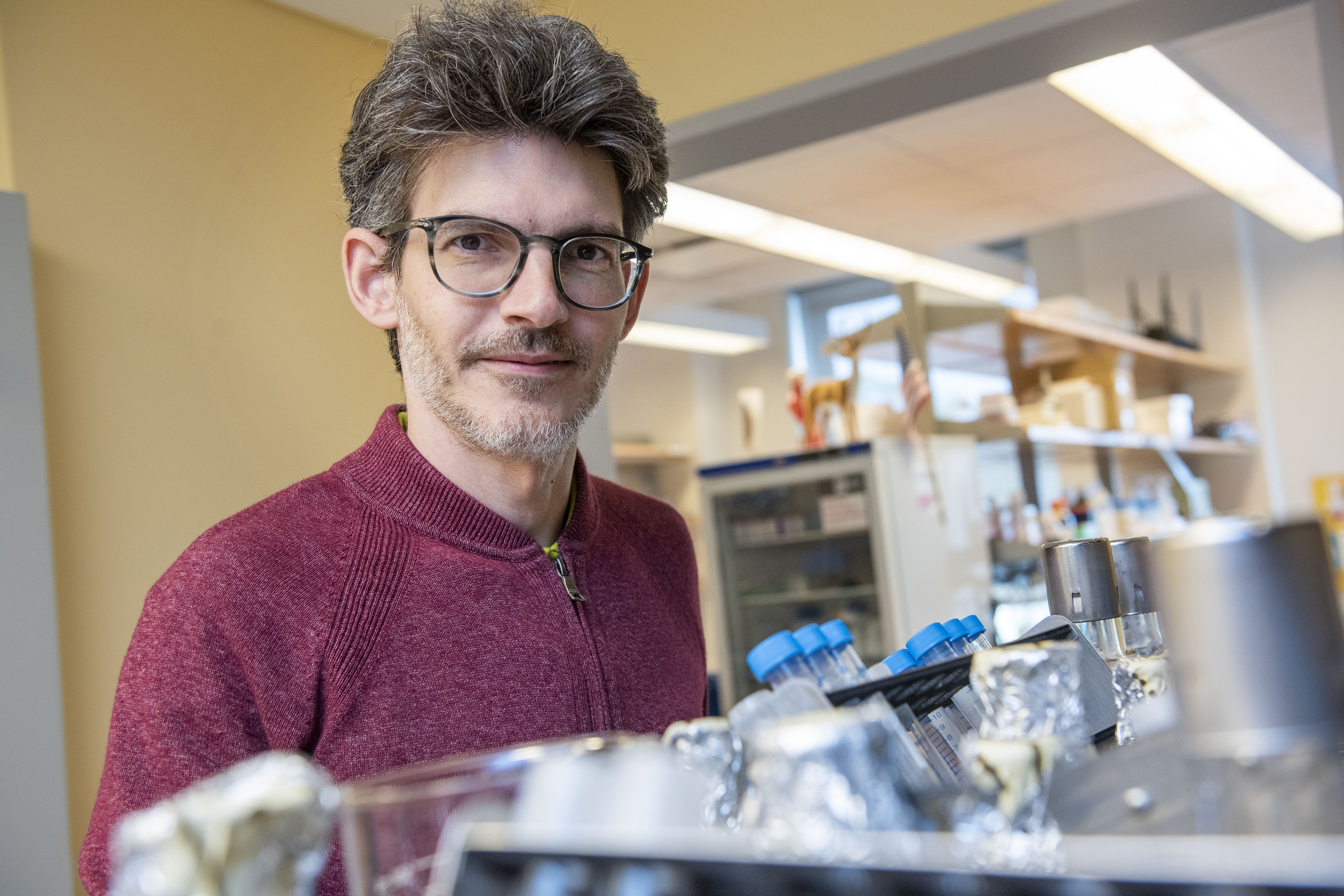 Luciano Marraffini, Professor and Head of the Laboratory of Bacteriology at The Rockefeller University; Investigator of the Howard Hughes Medical Institute.